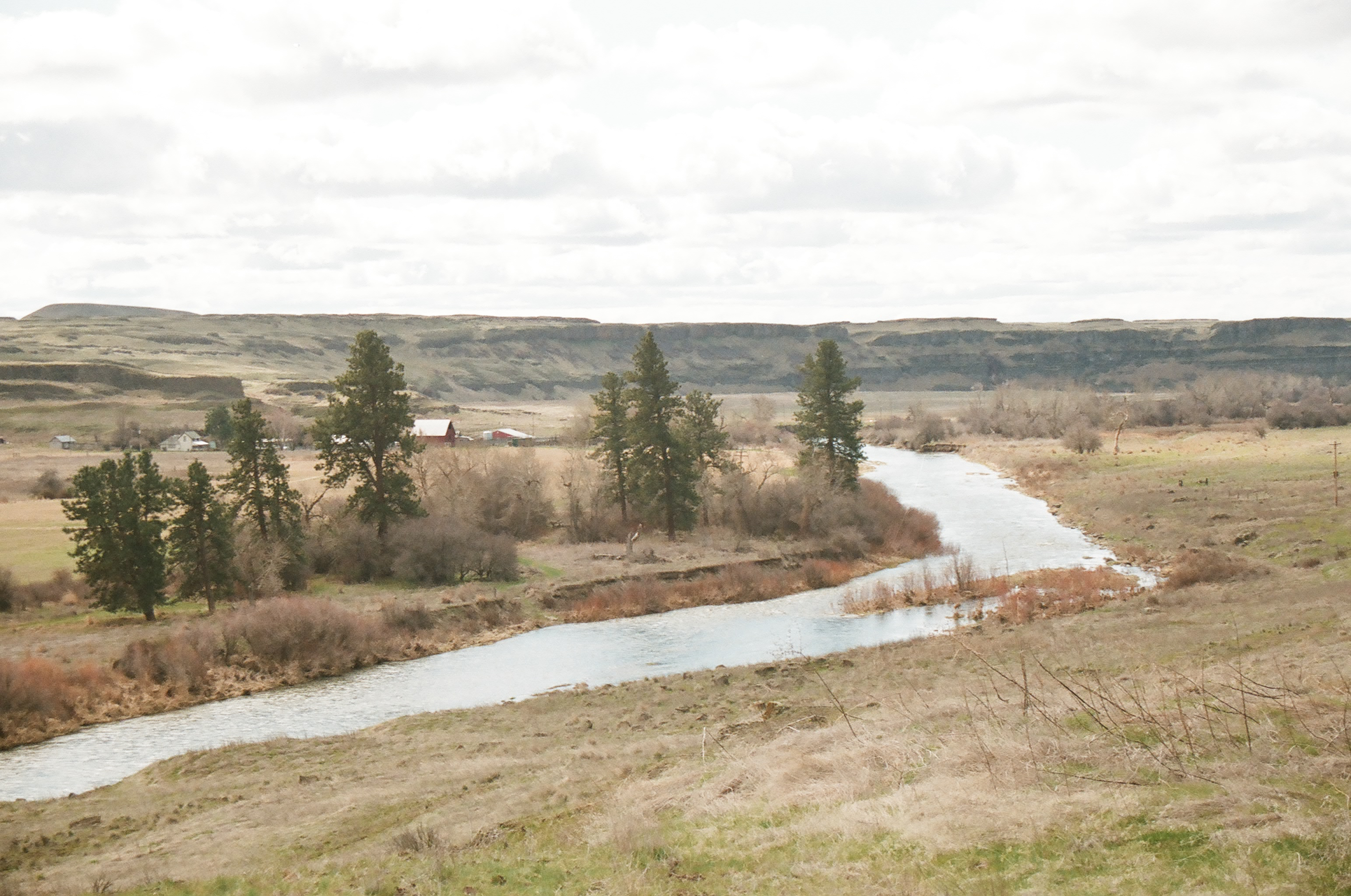 Palouse River upstream of the smaller falls. For use with the Columbia Plateau Trail article.